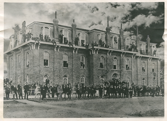 Flint Hall/Heritage Hall, Valparaiso University, circa 1875. Digitized by the Seven Shook from a postcard in his possession.